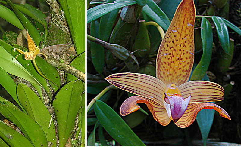 Known as the Sumatran Bulbophyllum, although found from Thailand to Indonesia. Tenom Orchid Center, Sabah, Borneo.